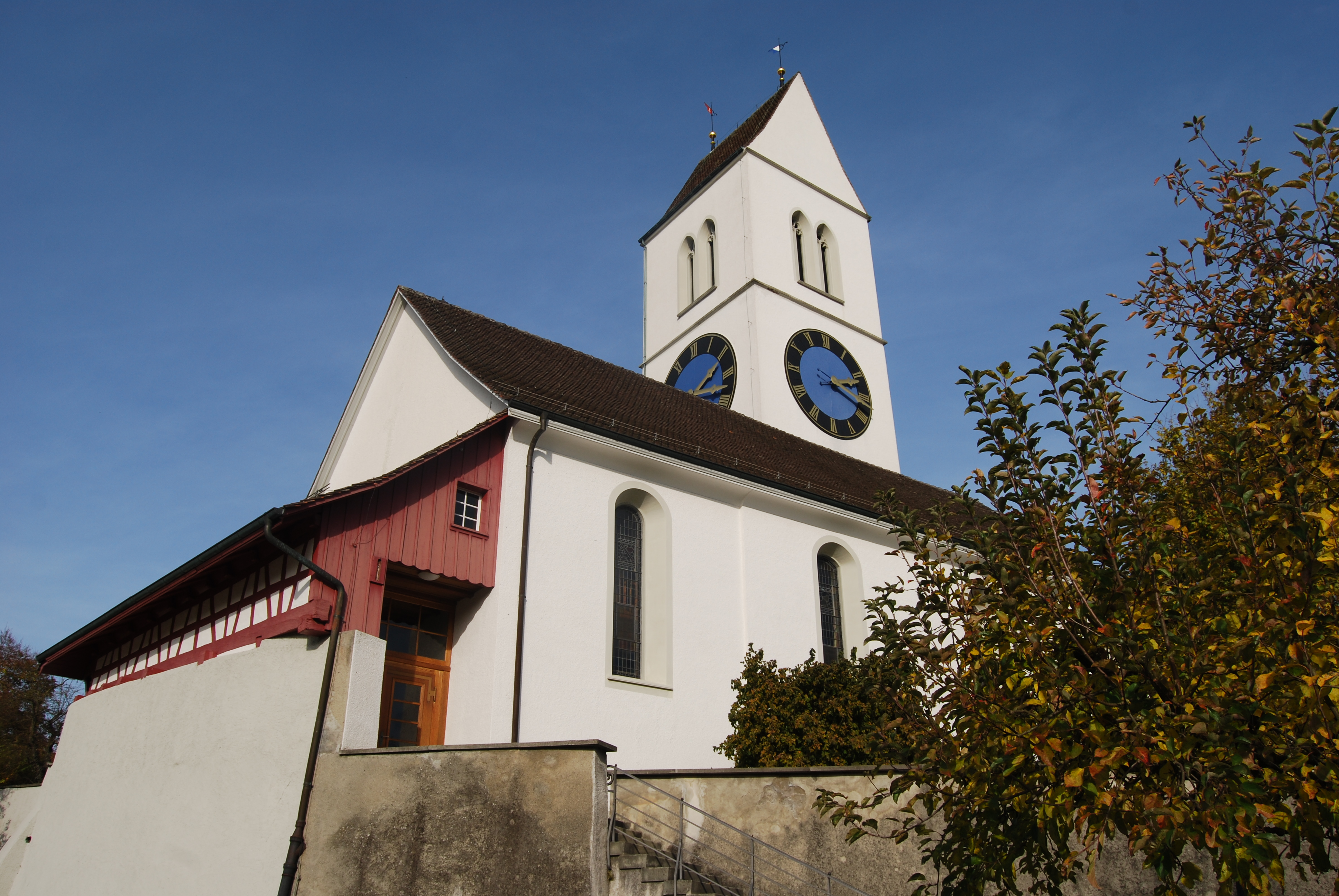 Church of Dinhard, canton of Zürich, SwitzerlandEsperanto: Preĝejo de Dinhard, Kantono Zuriko, Svislando